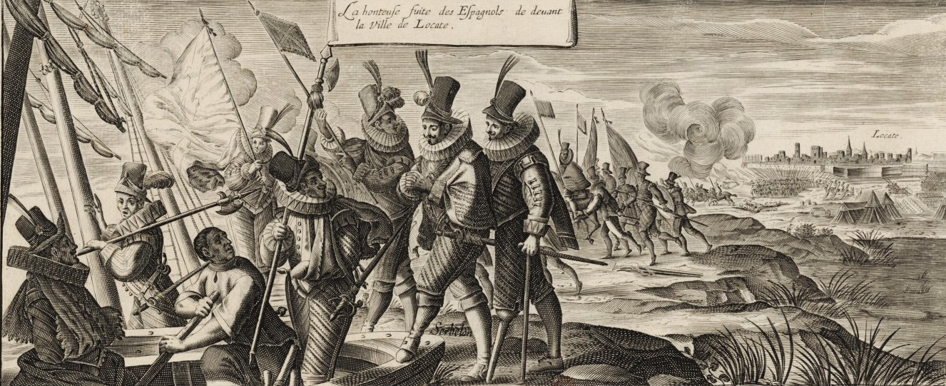 Battle of Leucata